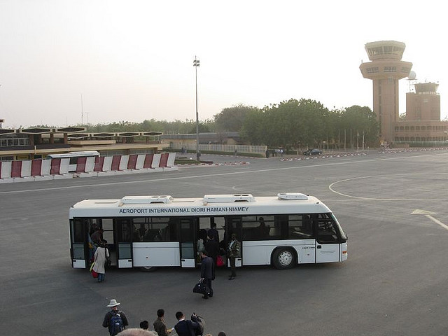 Bus at the Diori Hamani International Airport, Niamey, Niger.